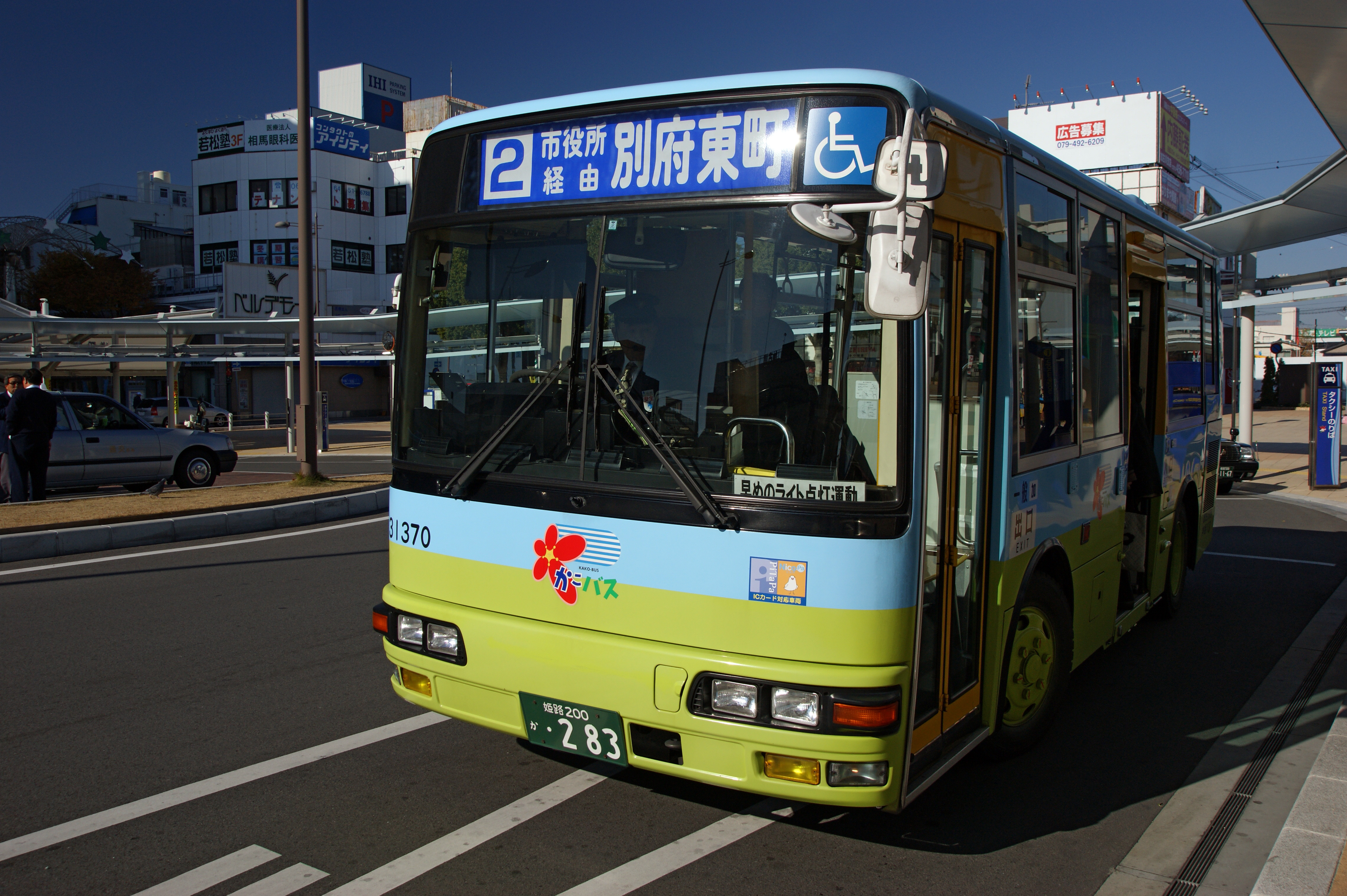 Kako Bus at Kakogawa Station, Kakogawa, Hyogo prefecture, Japan